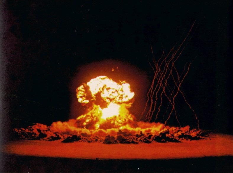 Operation Teapot, TURK Event - Nevada Test Site, NV - The TURK Event was detonated on 7 March 1955